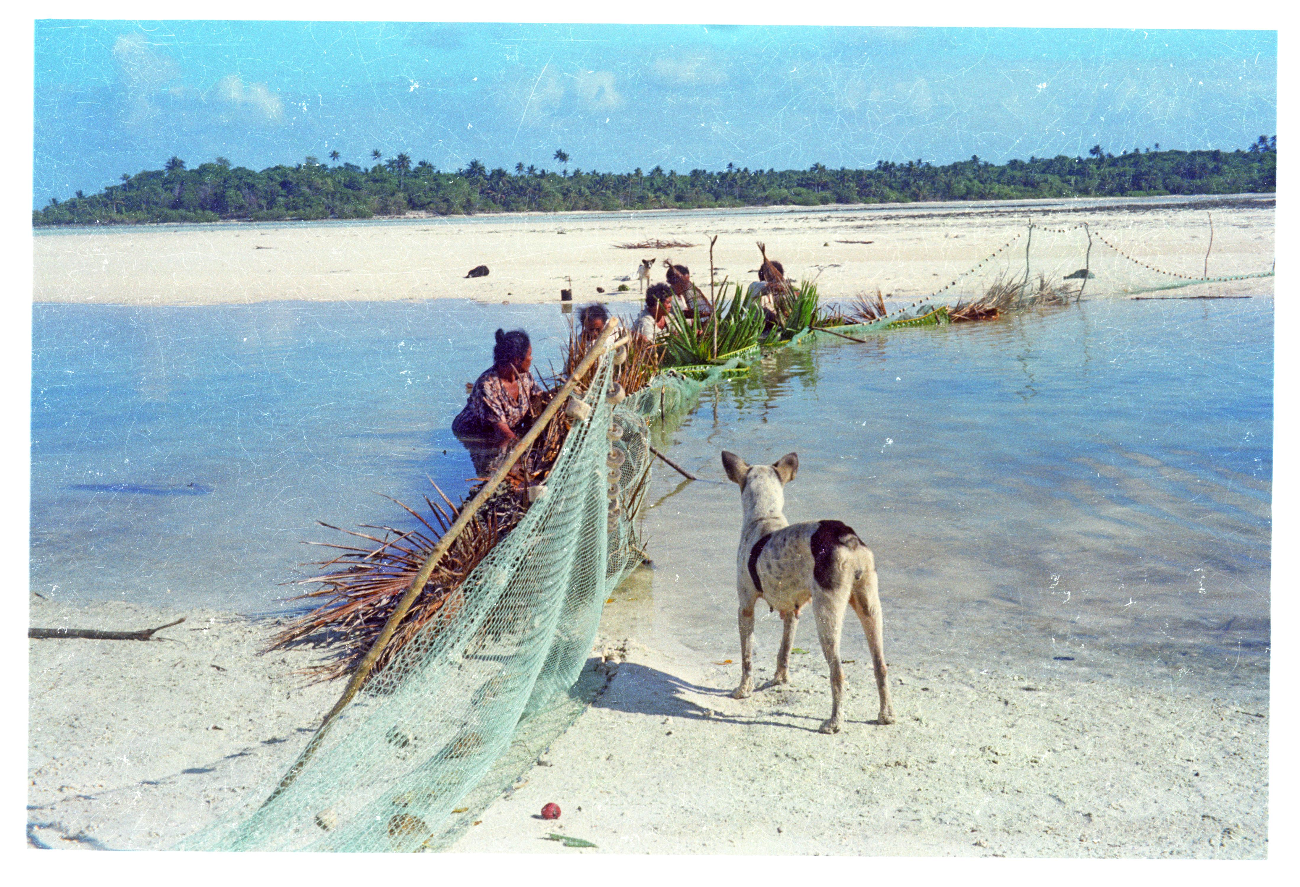 Hihifo, 1969. 'Aukava (fishing technique) by Hihifo women at Fātea (next to Nukuseilala islet), Niuatoputapu island